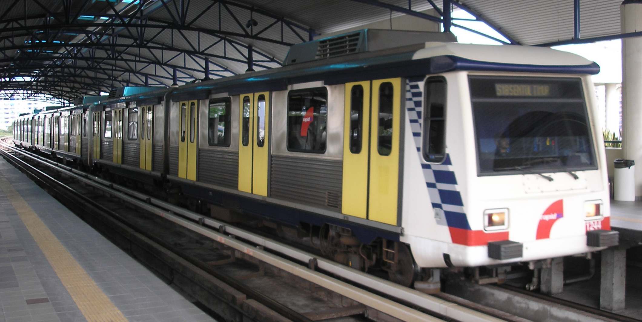 The front of a six-car Kuala Lumpur Star Light Rail Transit train, Kuala Lumpur, Malaysia.